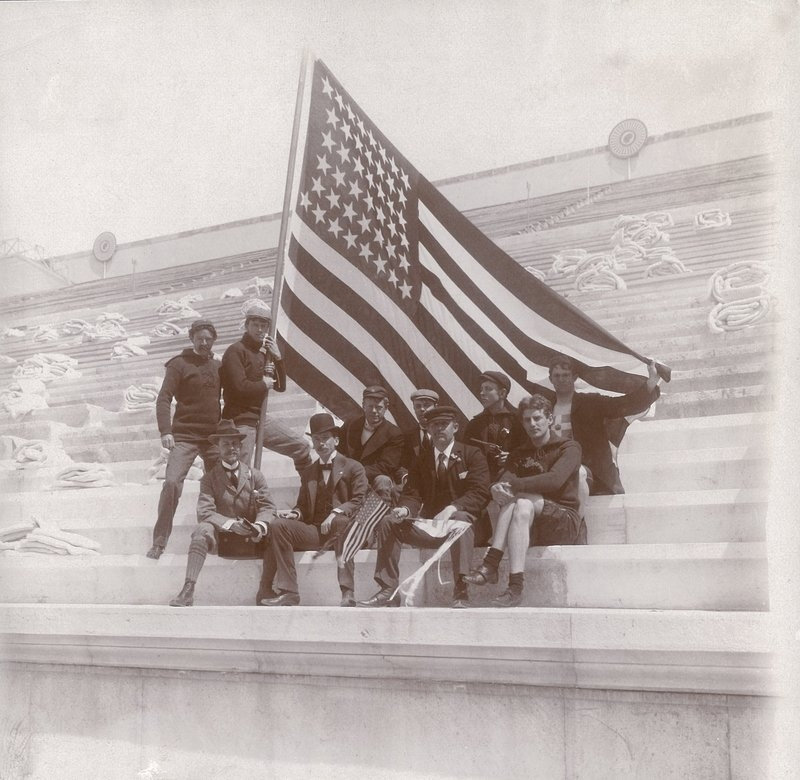 American Olympic Team at the 1896 Athens Olympics, 1896, Brooklyn Museum